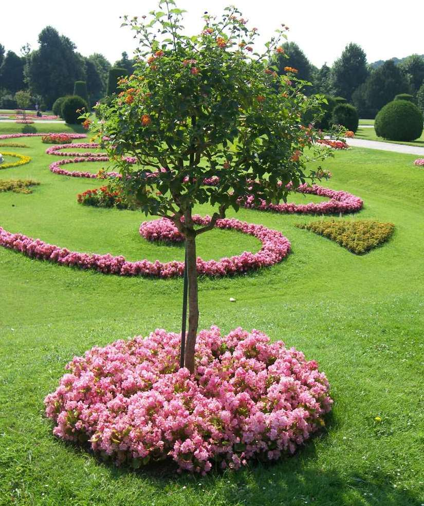 Austria, Vienna, Tiergarten Schönbrunn